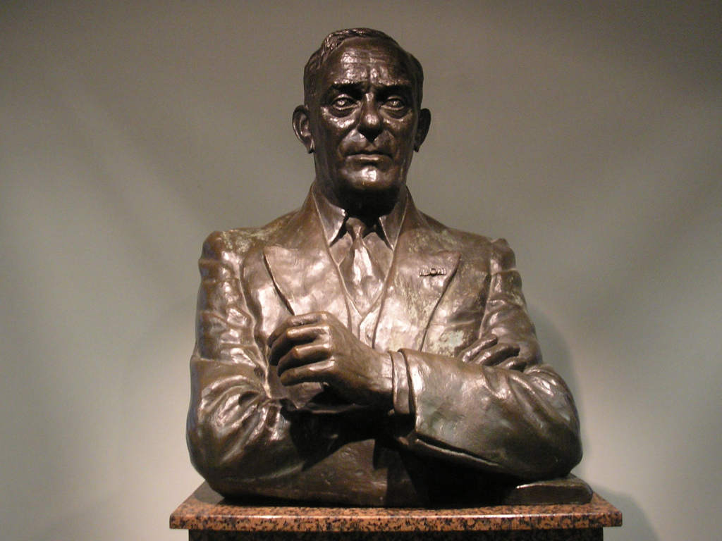 Albert Plesman - Statue at Schiphol airport